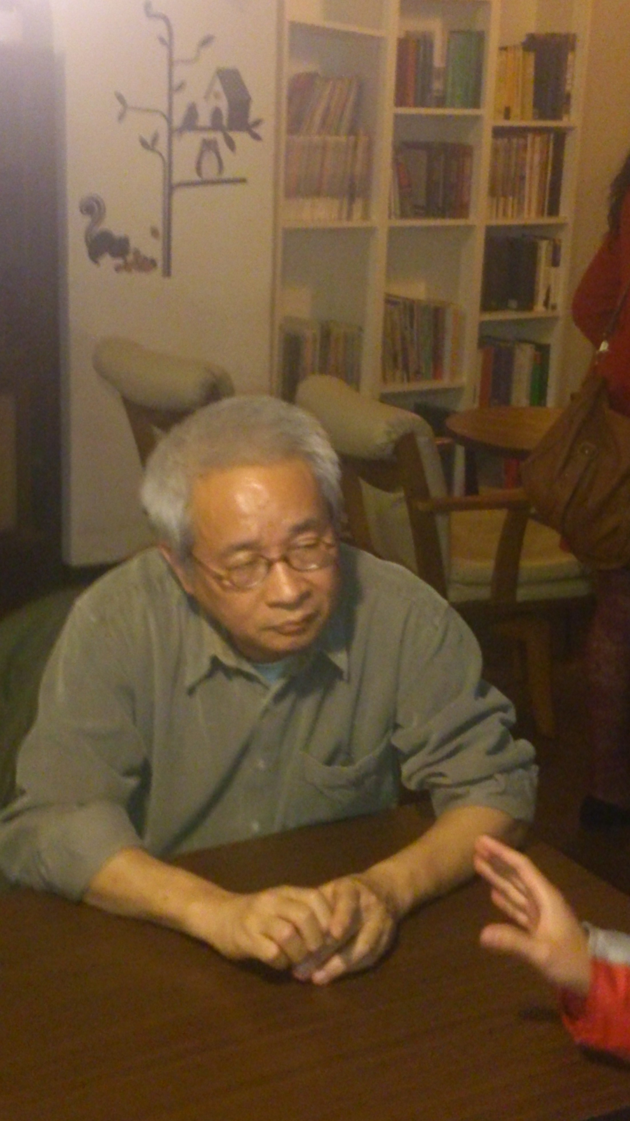 Neil Peng